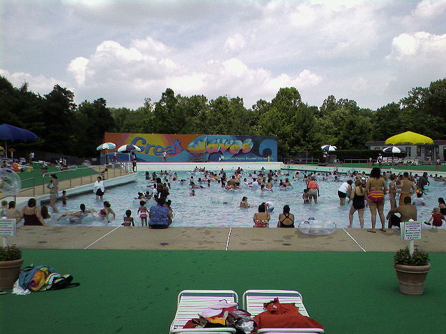 Posted via email from paulidin's posterous [click here]